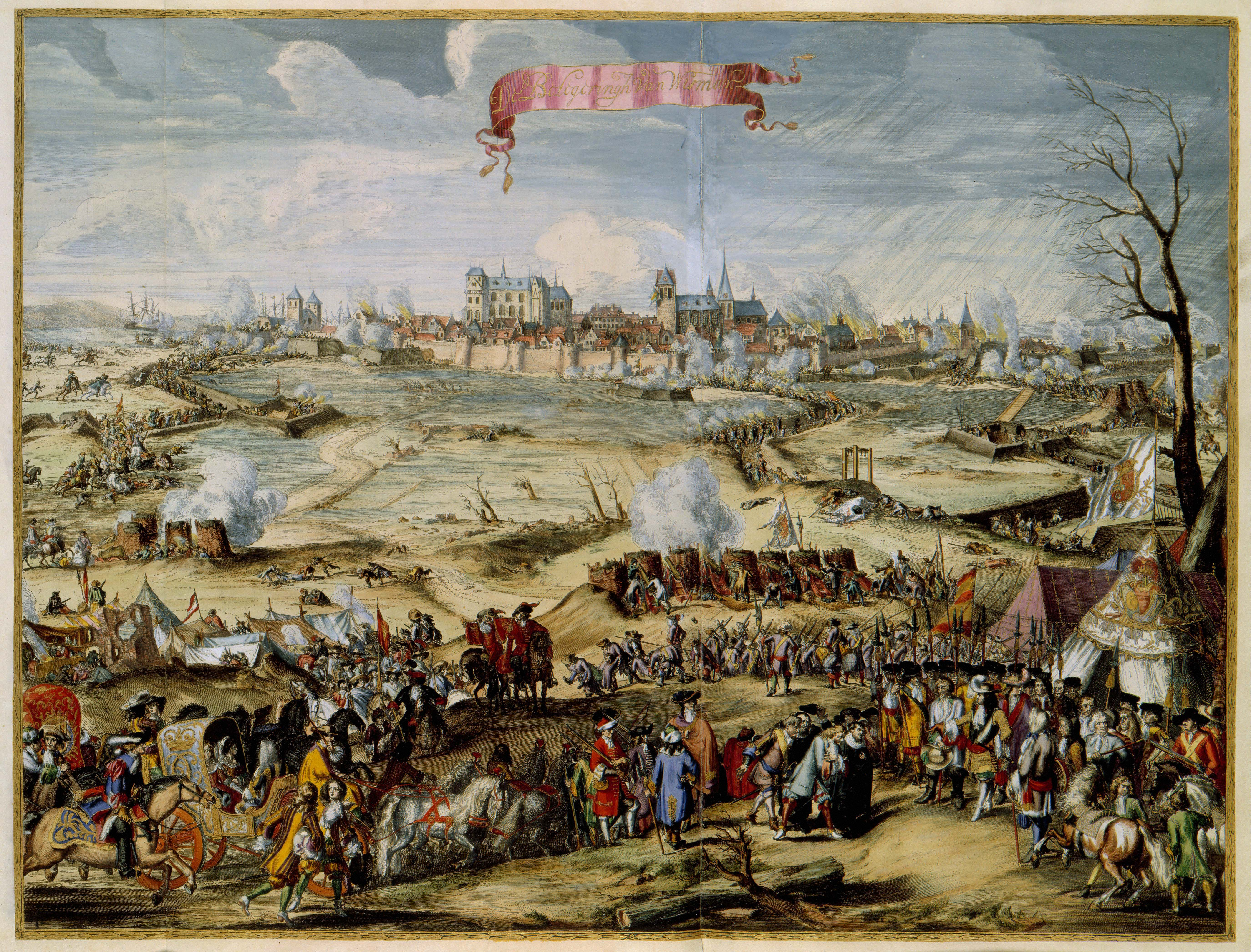 This print by Romeyn de Hooghe (1645-1708) shows the siege of the city of Wismar in the duchy of Mecklenburg.